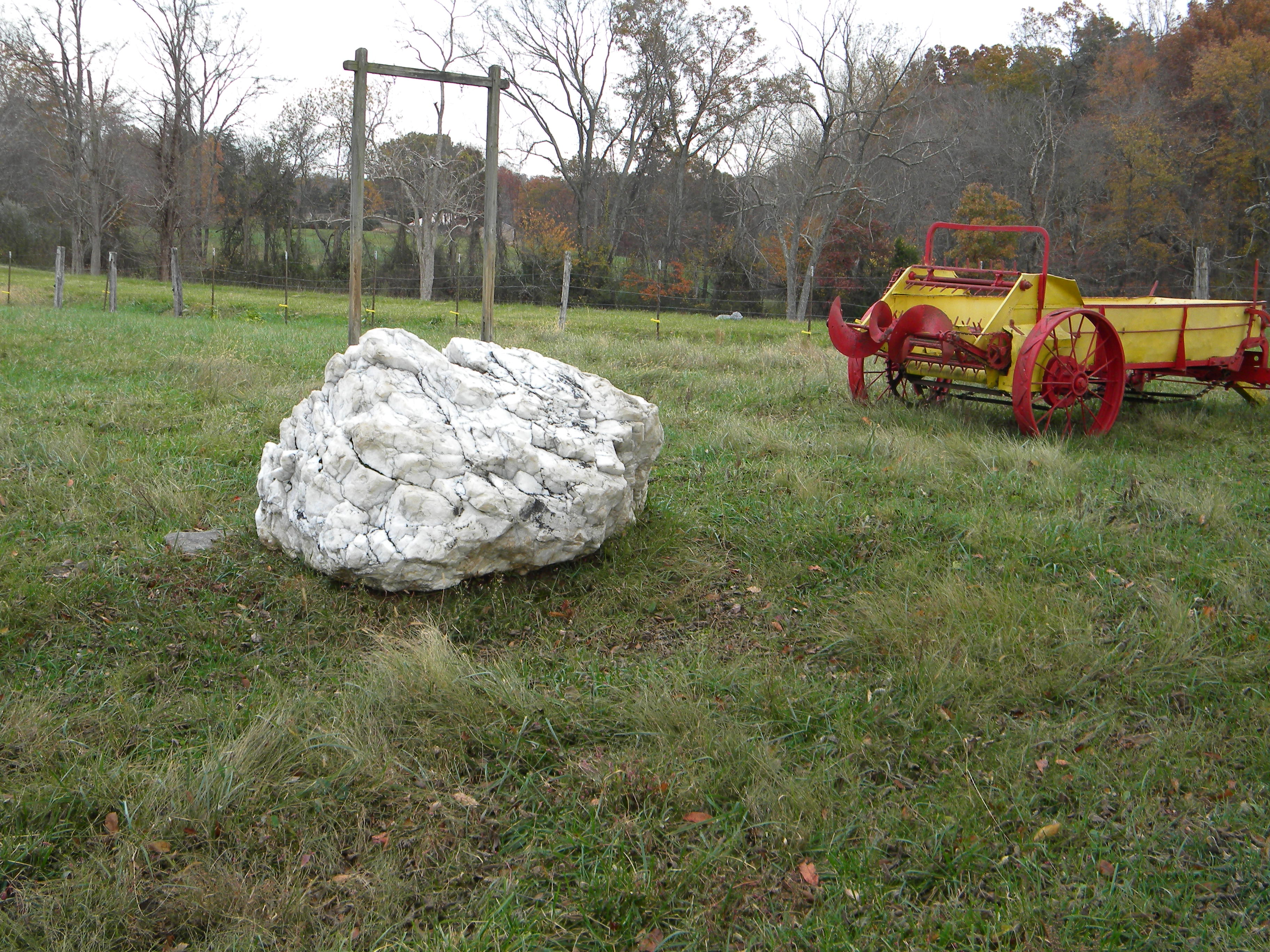 large white quartz boulder from Battle Mountain indicating high SiO2 concentrations from highly viscous rhyolitic lava